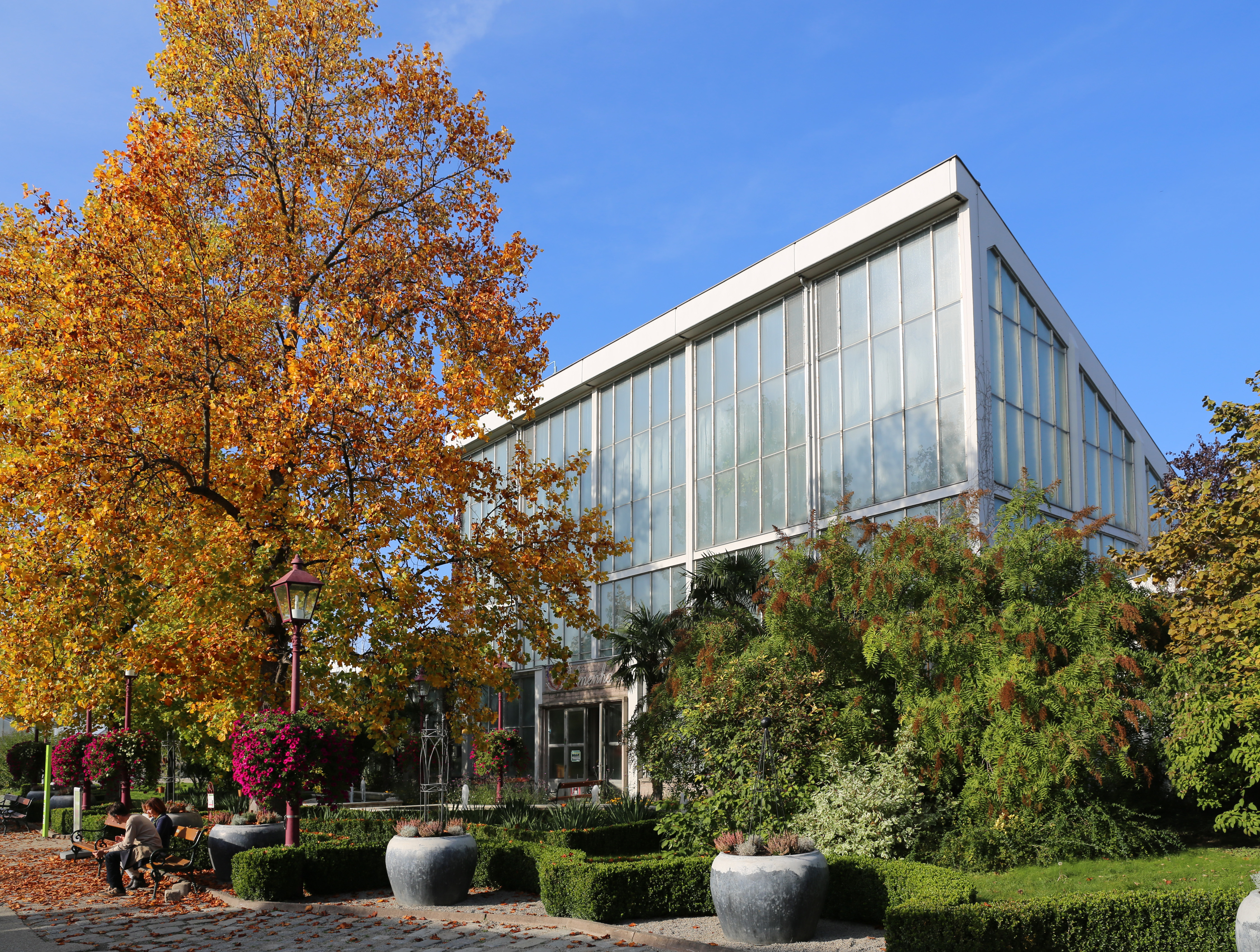 Greenhouse at Blumengärten Hirschstetten in Vienna, Austria.